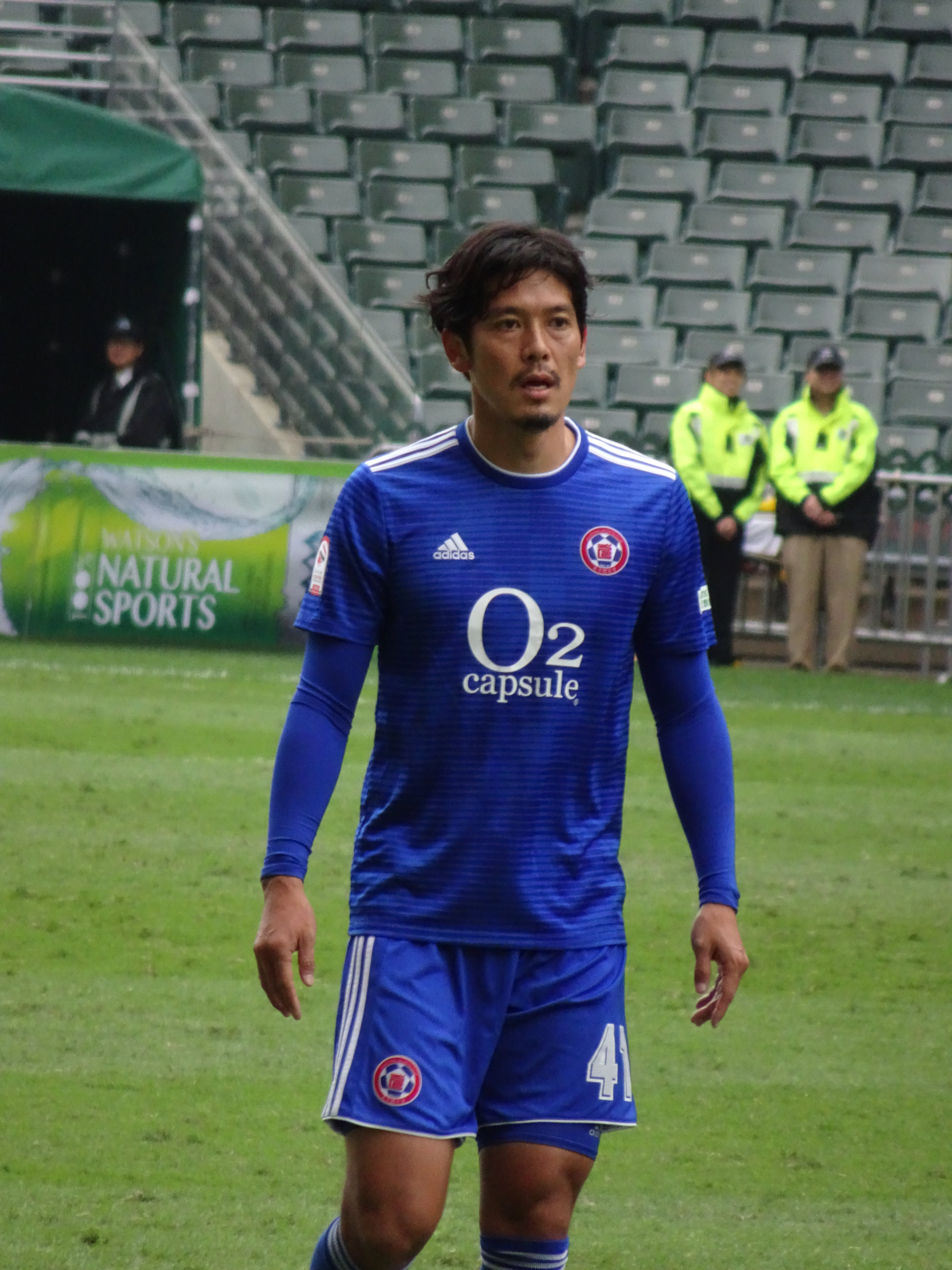 Yusuke Igawa (27 Jan 2018, HK Senior Shield Final, Eastern vs Yuen Long, Hong Kong Stadium)